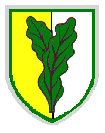 coat of arms of the Bundeswehr (Armed Forces of the Federal Republic of Germany). → Remarks on naming and categorization scheme Verbandsabzeichen der Heimatschutzbrigade (HSchBrig) 52 der Bundeswehr